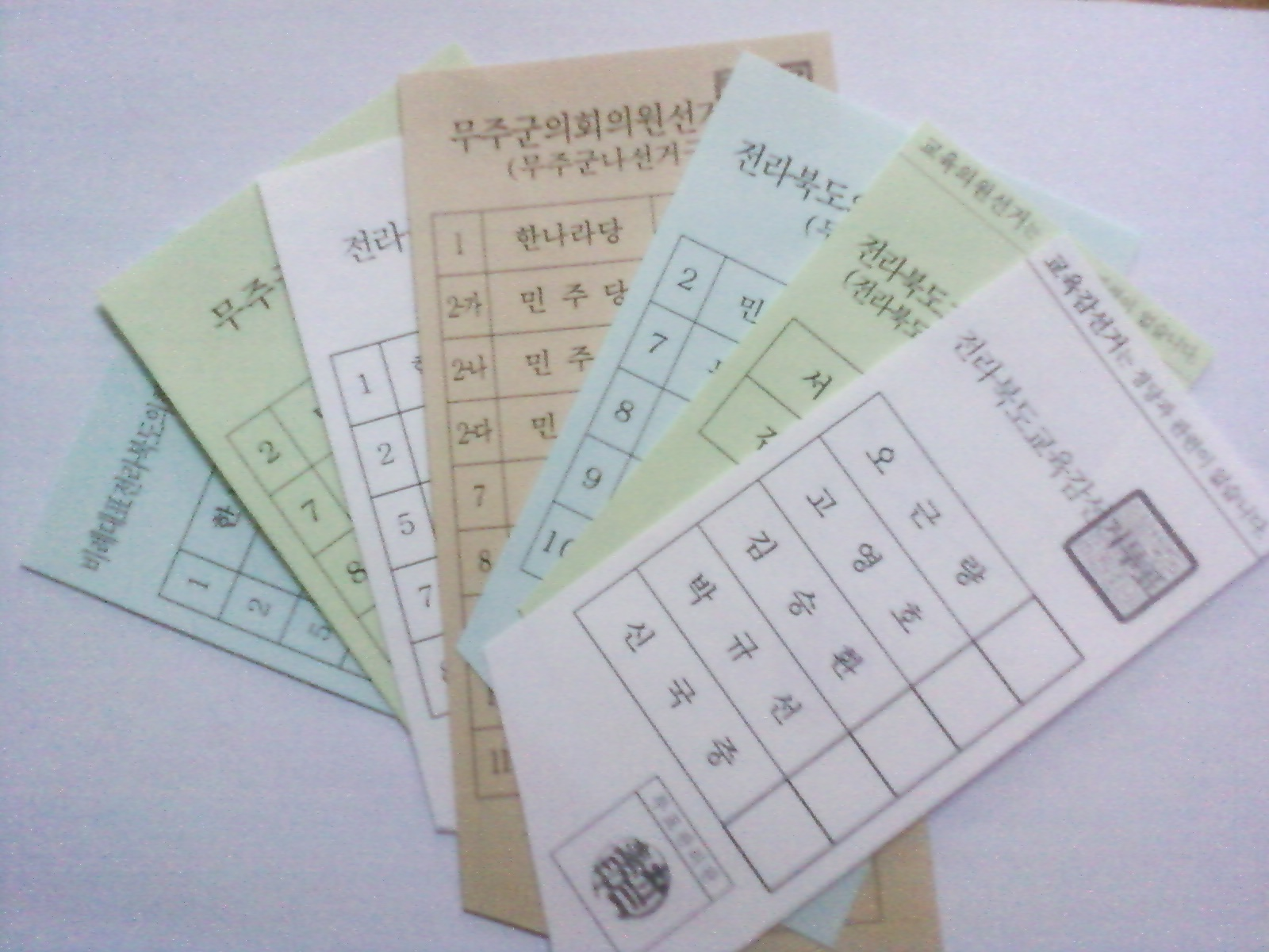 South Korean 5th local election ballot paper (Muju-na), Talk : 위키백과토론:위키프로젝트 선거#부재자 투표 용지